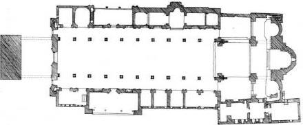 Plan of Palermo Cathedral before XVIII cent